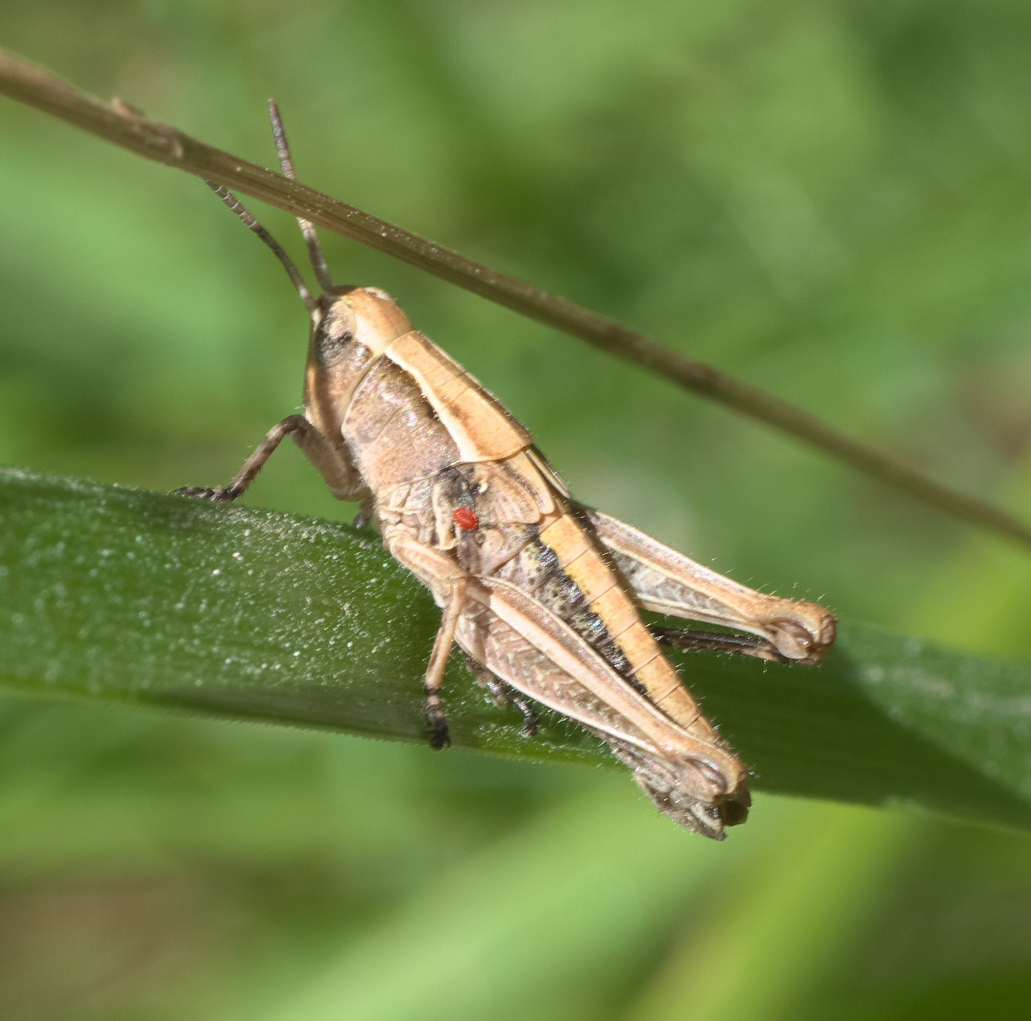 Phaulacridium marginale, new Zealand grasshopper, ID Confidence: 84